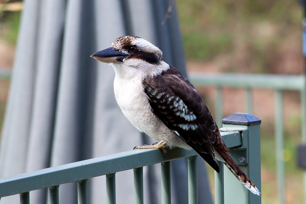 My favorite Australian bird: Laughing Kookaburra